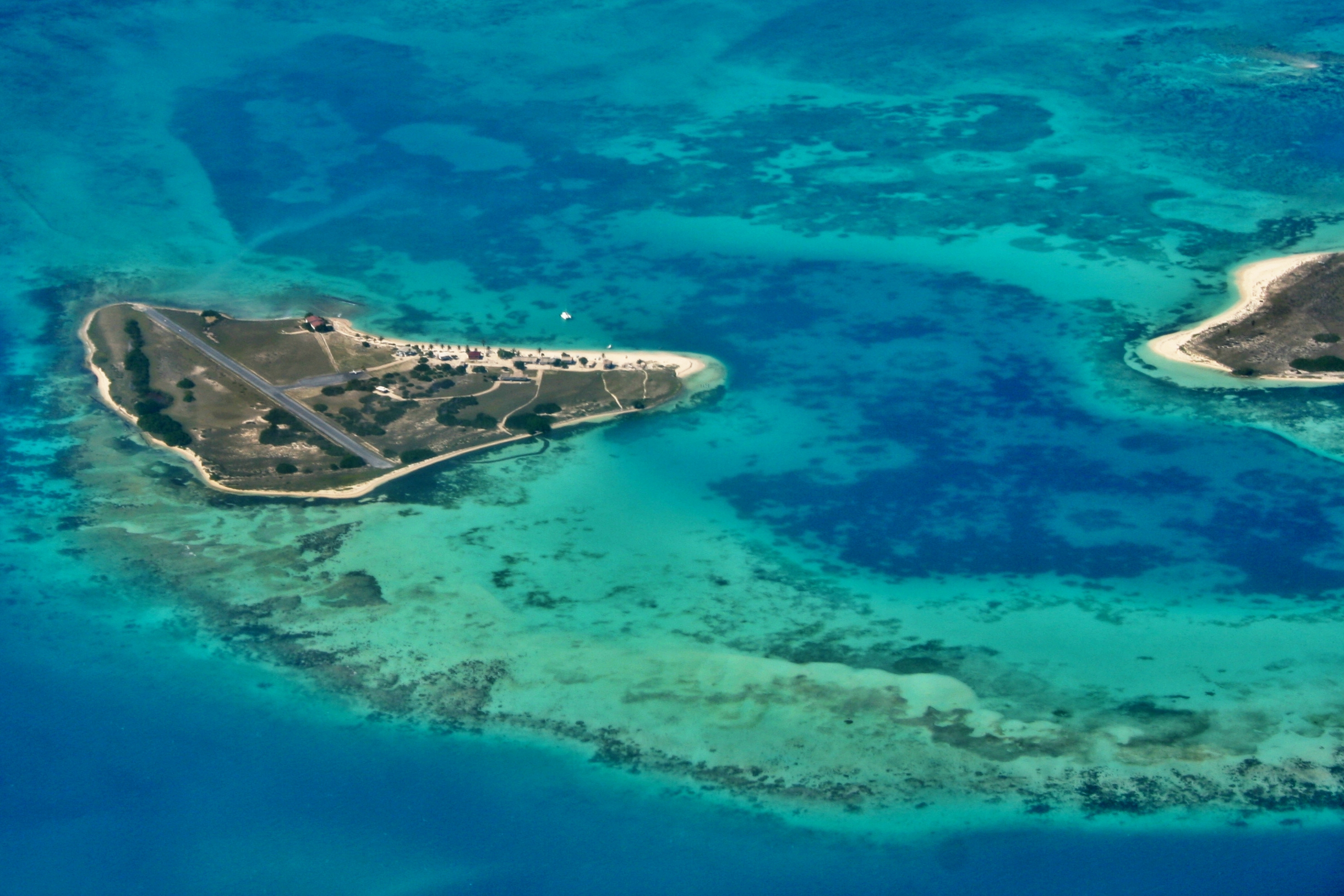 The island of Dos Mosquises Sur, in the Los Roques archipelago, Venezuela. The island harbors the Los Roques Scientific Foundation research center, founded in 1963.